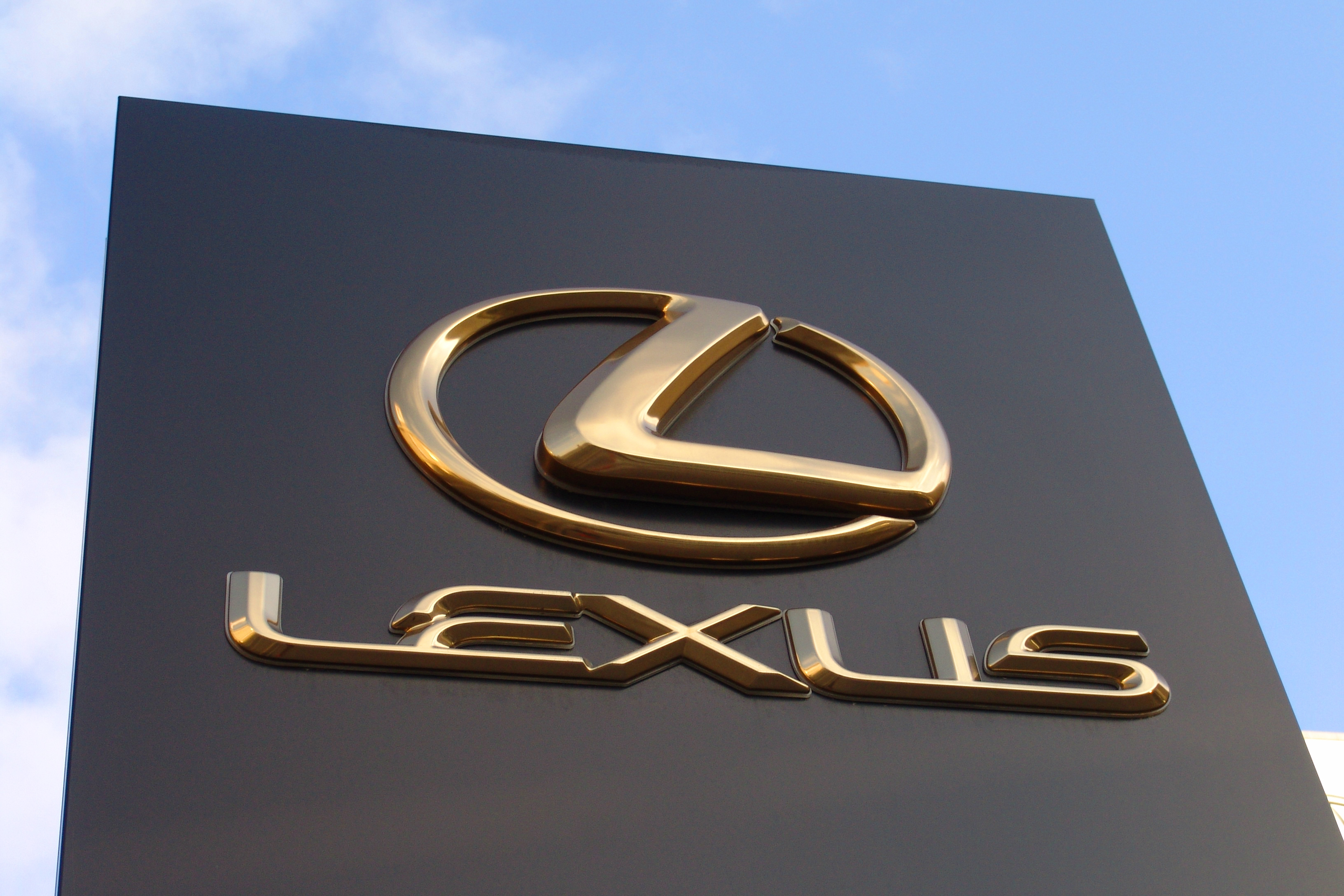 Lexus of Sapporo